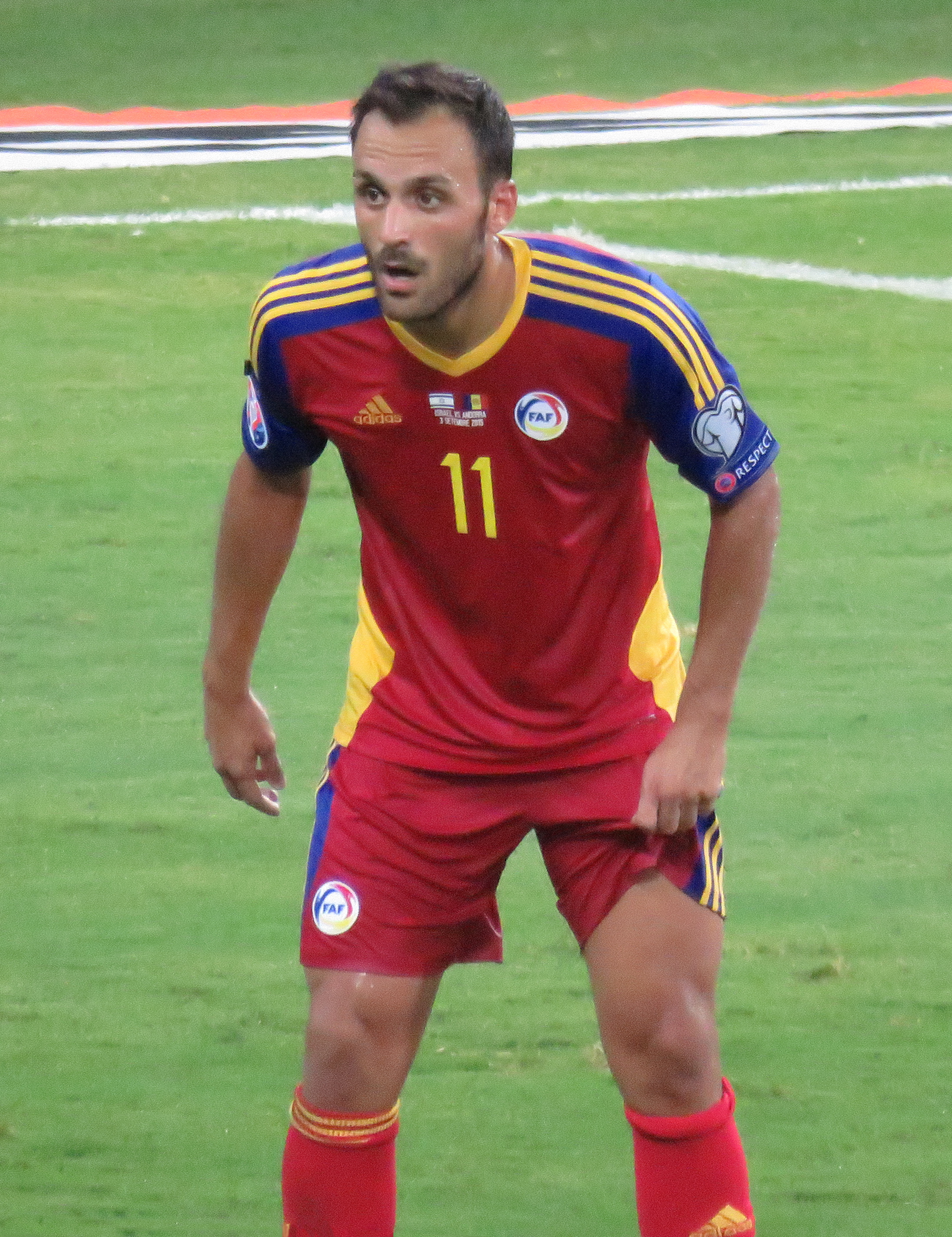 Israel vs. Andorra - September 3, 2015